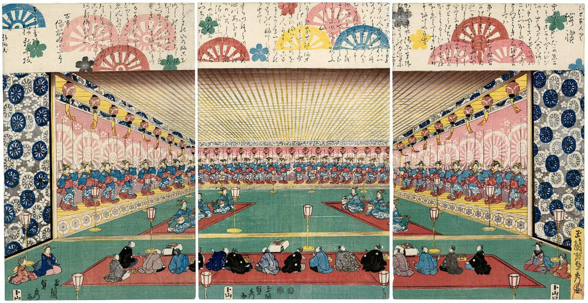 Ise-ondo dance at Bizenya restaurant in Ise. Japanese wood-print, Ukiyoe. Edo period, 1847–52 (Kōka 4–Kaei 5) Artist Utagawa Sadahide, Publisher Yamaguchiya Tōbei (Kinkōdō)